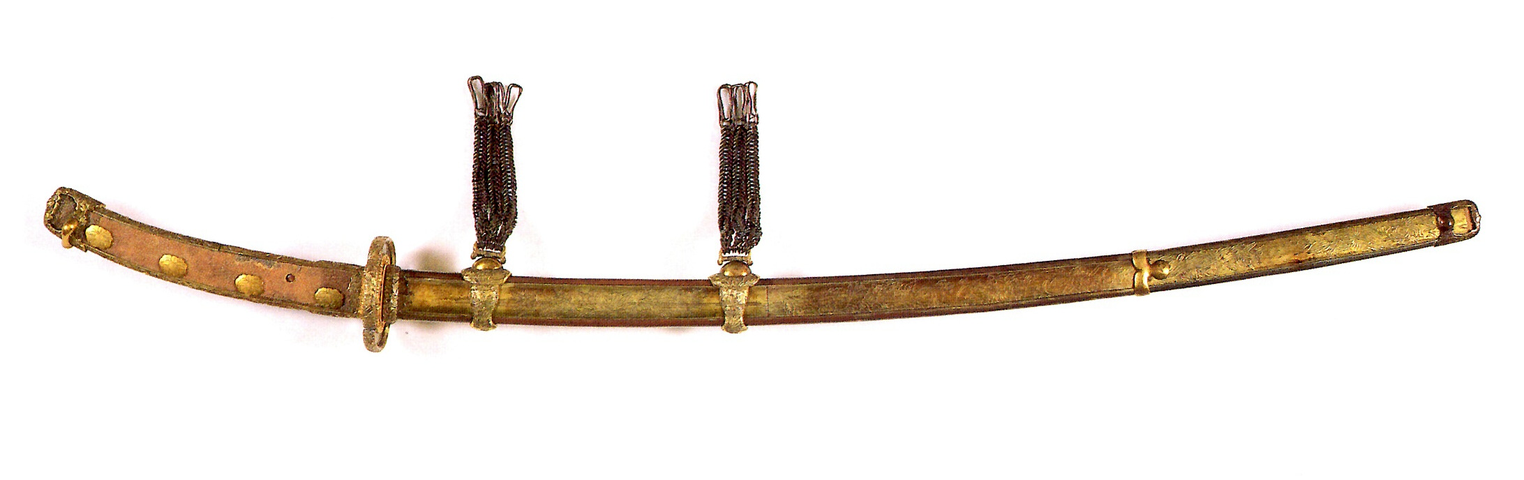 The Japanese sword of the Kamakura period